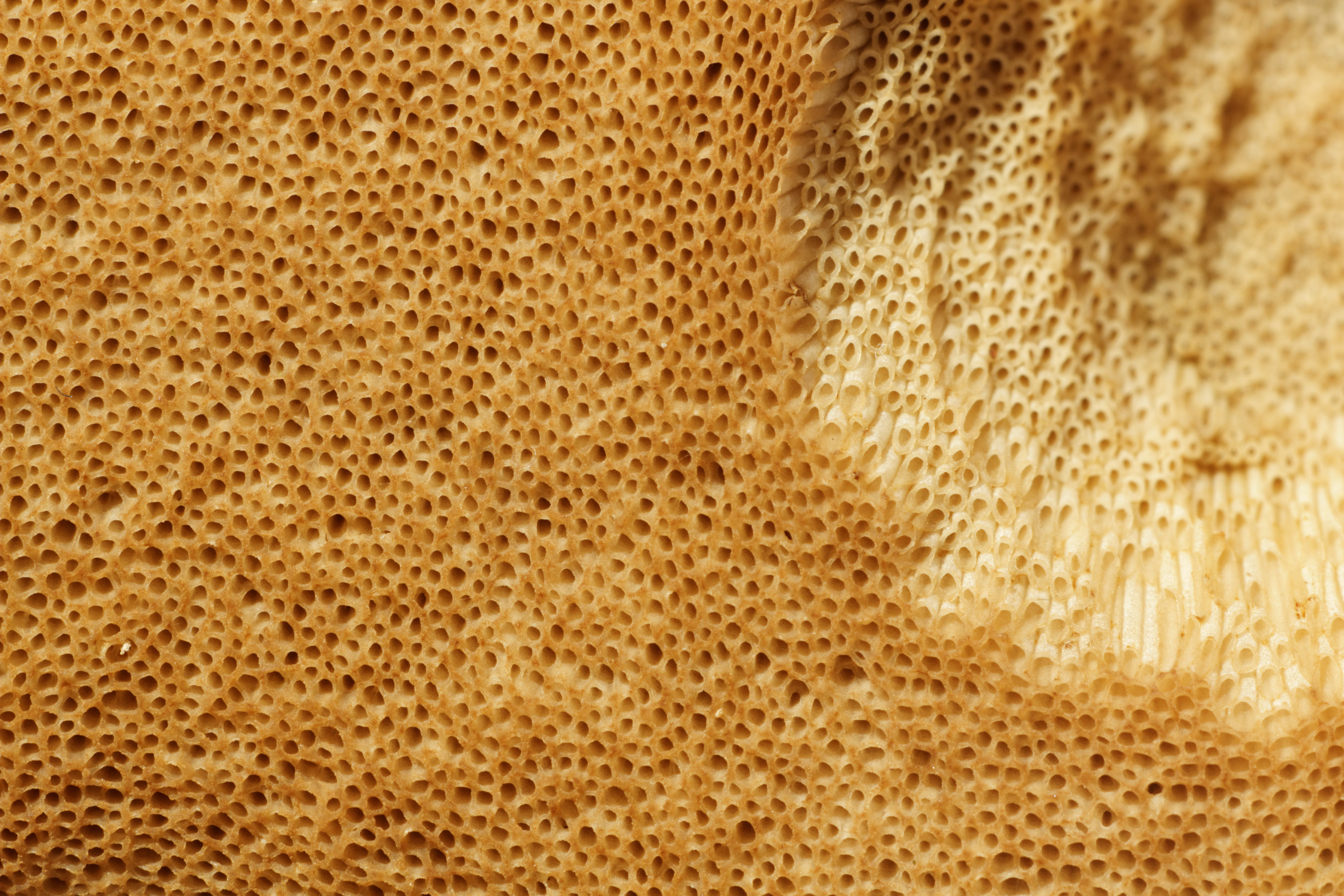 Hymenium of red-capped scaber stalk (Leccinum aurantiacum).